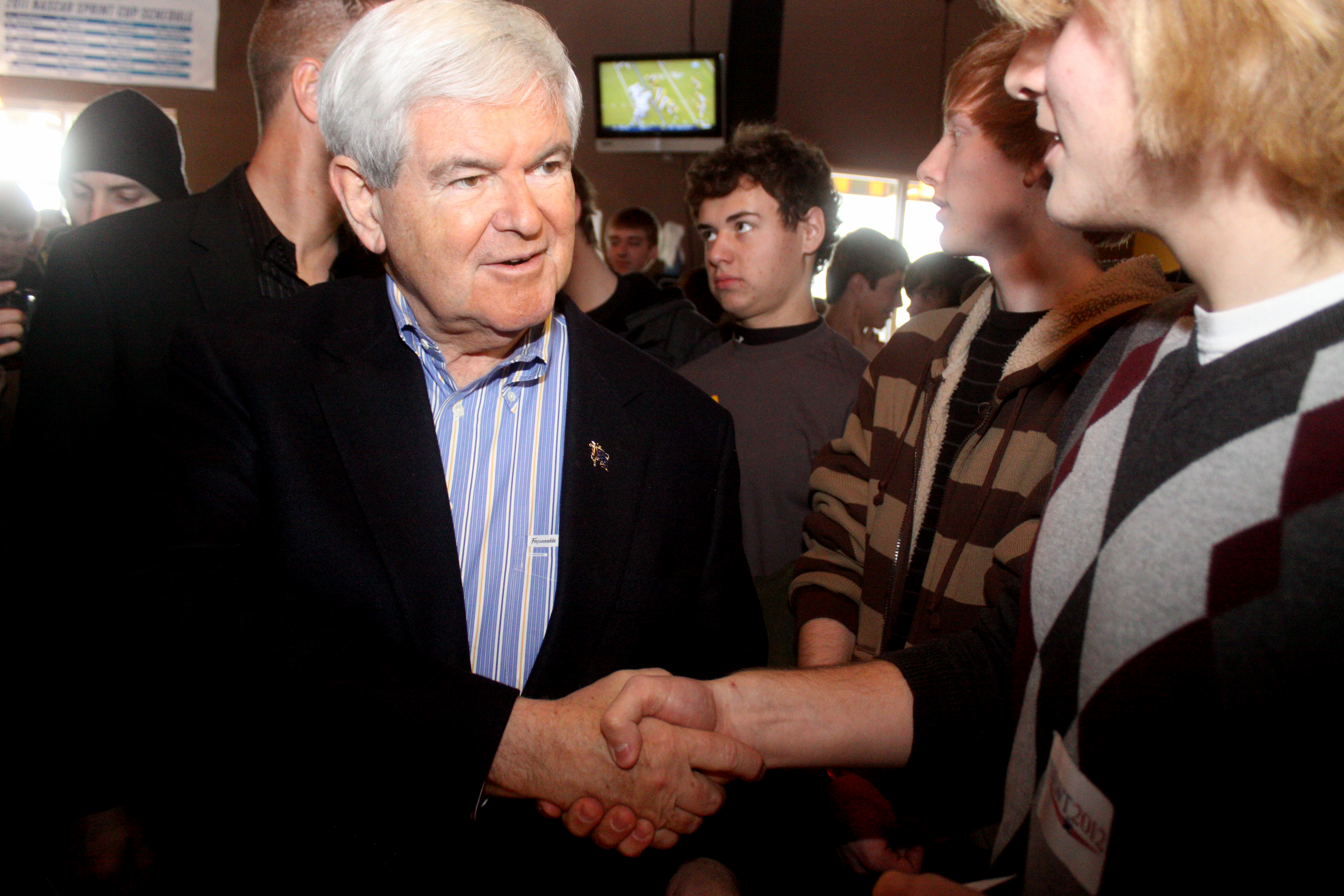 Newt Gingrich speaking to supporters at a meet and greet in Ames, Iowa.